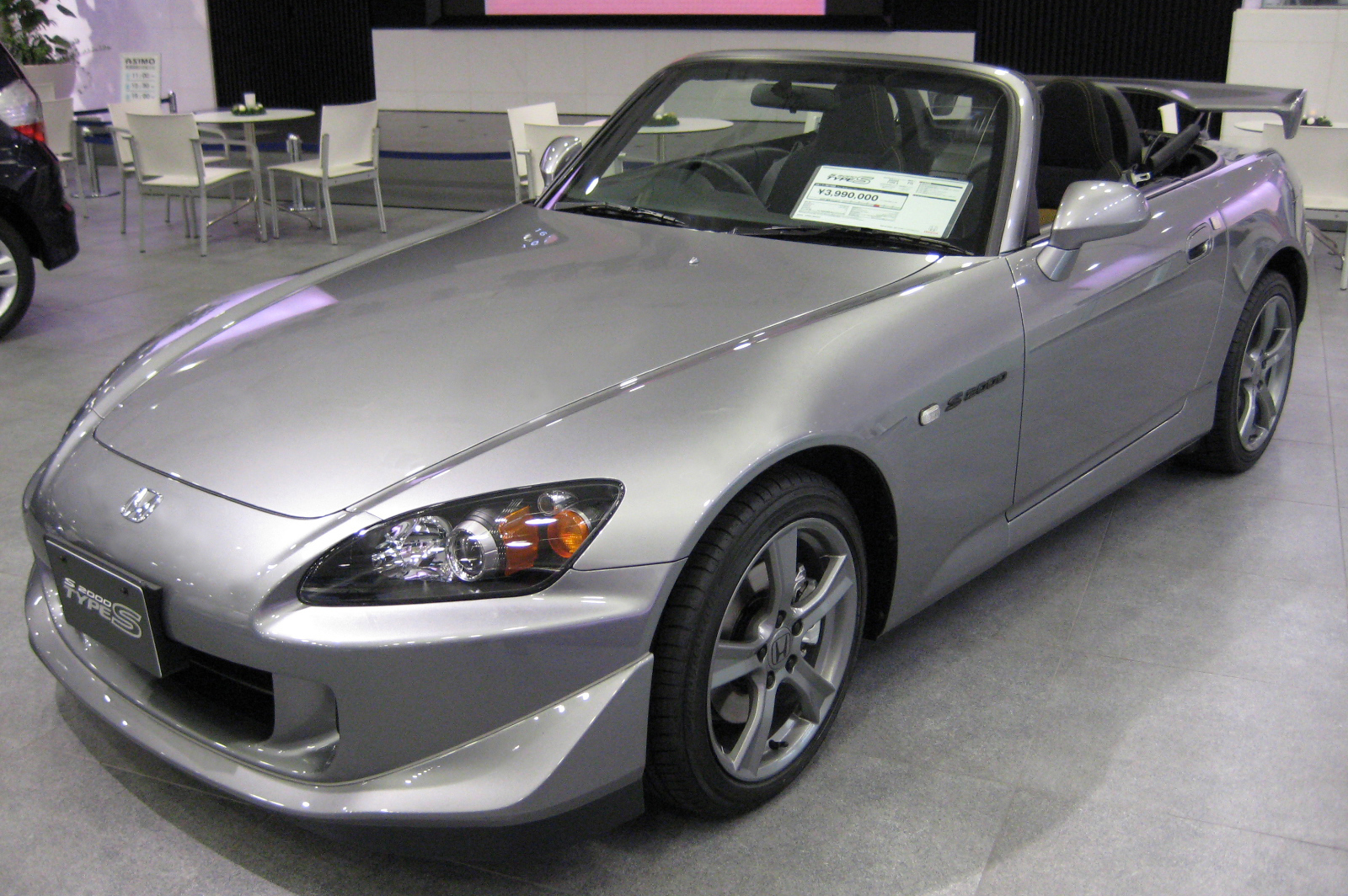 2007 Honda S2000 Type S in Honda Welcome Plaza